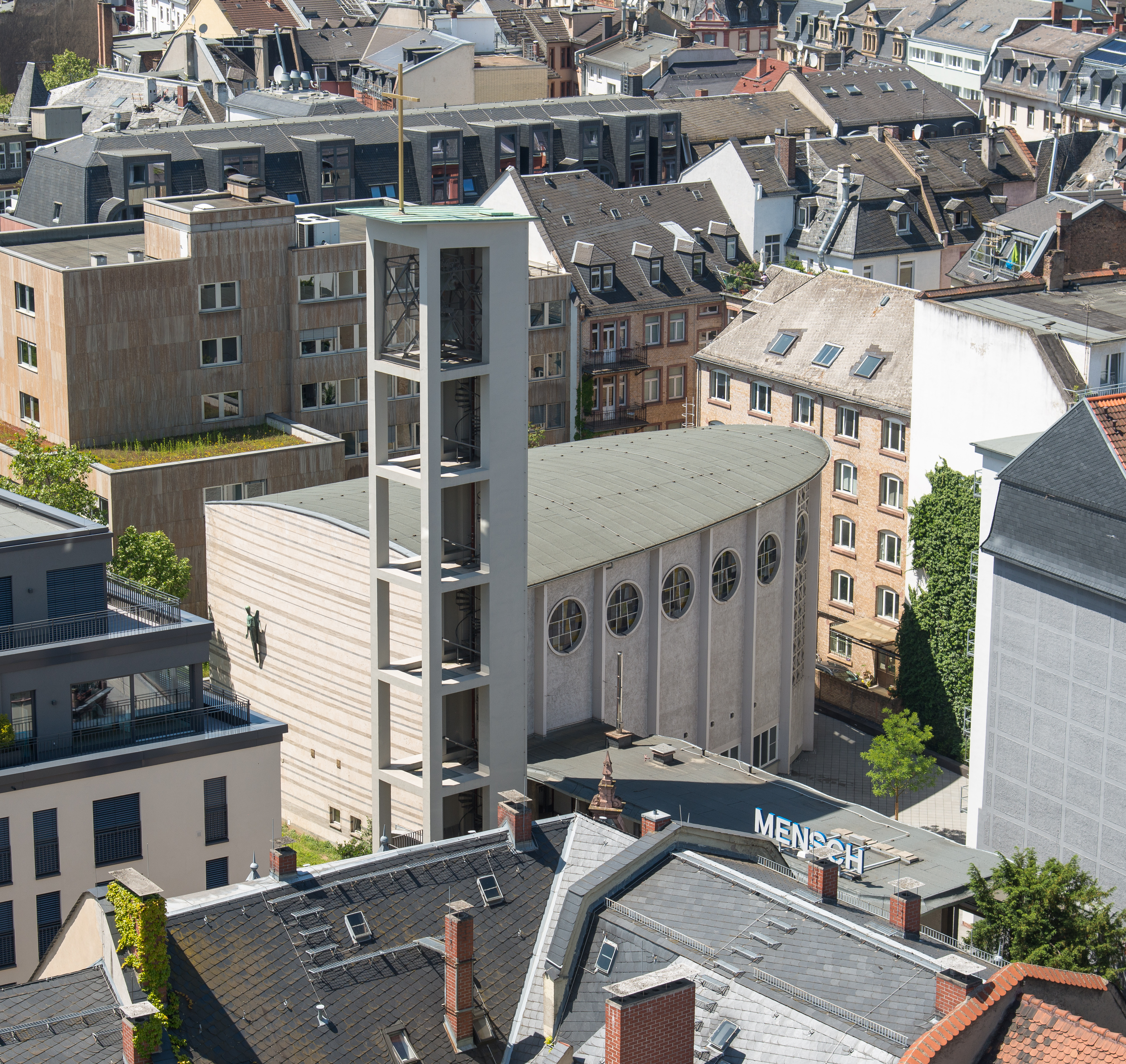 Frankfurt am Main, the Weißfrauen church from 1956, as seen from East. Cultural monument of the city.